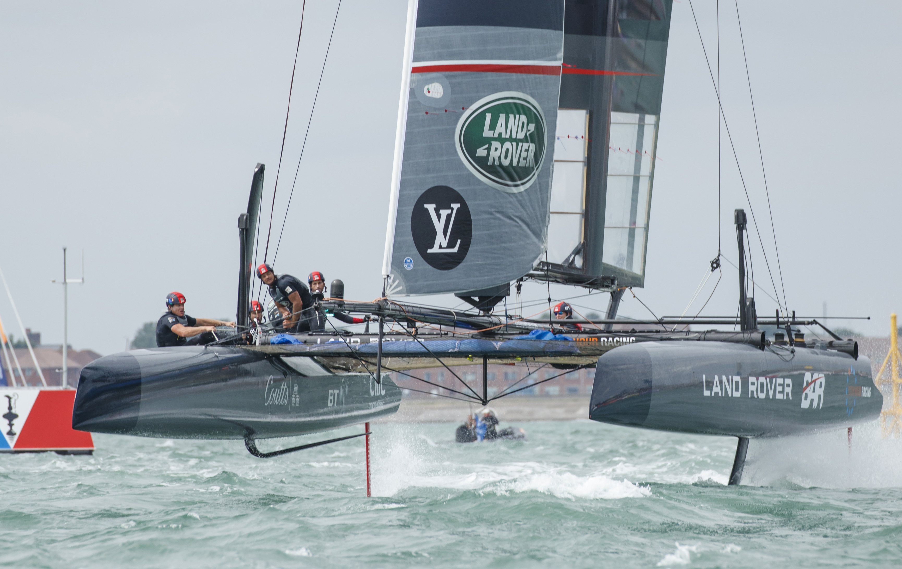 Sailing team Land Rover BAR at the Portsmouth event of the 2016 AC45 World Series, which they won